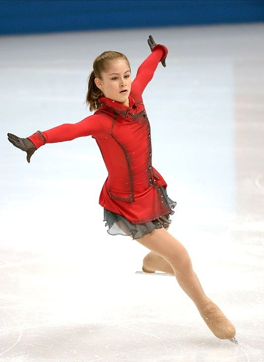 Team figure skating competition at the Iceberg Skating Palace. On the ice is figure skater Yulia Lipnitskaya, who took first place in the free programme.